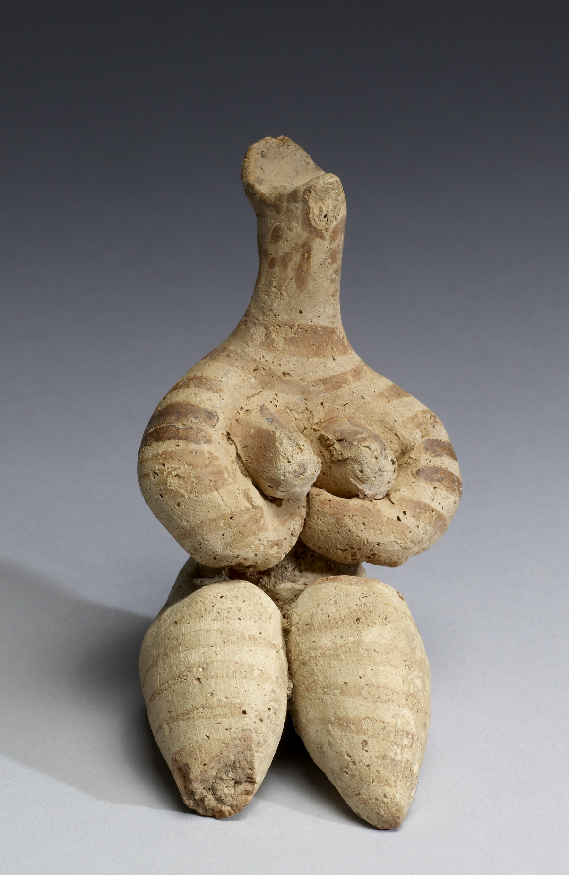 As early as the 7th millennium BC, cultures in the Near East began to create organized settlements with well-developed religious and funerary practices. The Halaf culture of Anatolia (central Turkey) and northern Syria arose around 5000 BC and produced remarkable female figurines with distinctive fertility attributes. This statuette is seated with legs extended, her arms cradling her protruding breasts. Bands of pigment emphasize the full, rounded forms of her limbs and suggest facial features, a necklace, and loincloth.